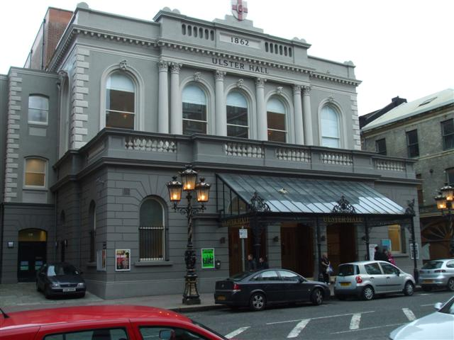 Ulster Hall, Belfast Built in 1862, it is located along Bedford Street; note the Victorian light standards